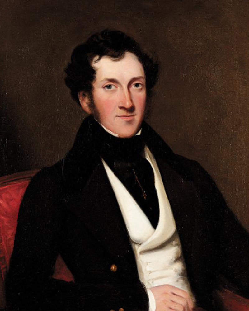 John Sherwin Gregory, owner of Harlaxton Manor, Lincolnshire